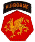 Source: U.S. Army Aiborne Patches